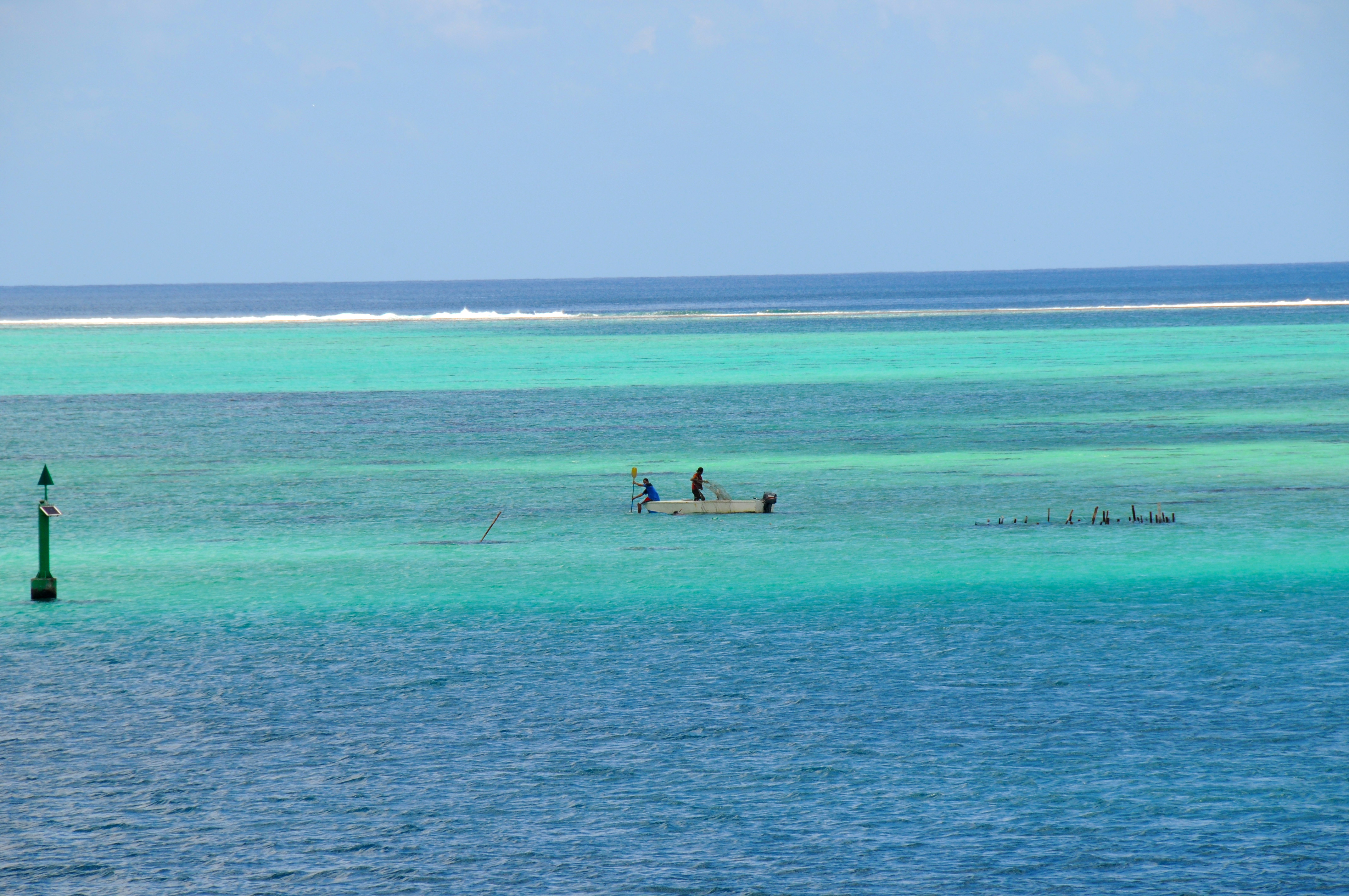 West side of Taha'a atoll - fishing inside the reef